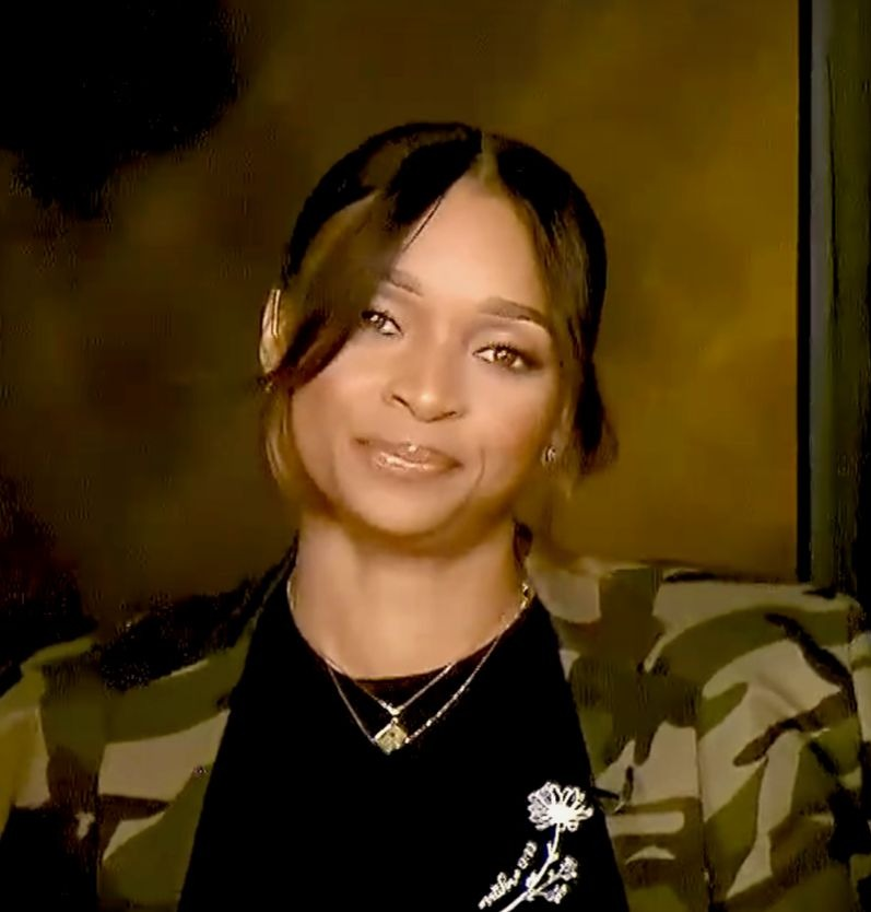 BET+ Tyler Perry's Ruthless drama